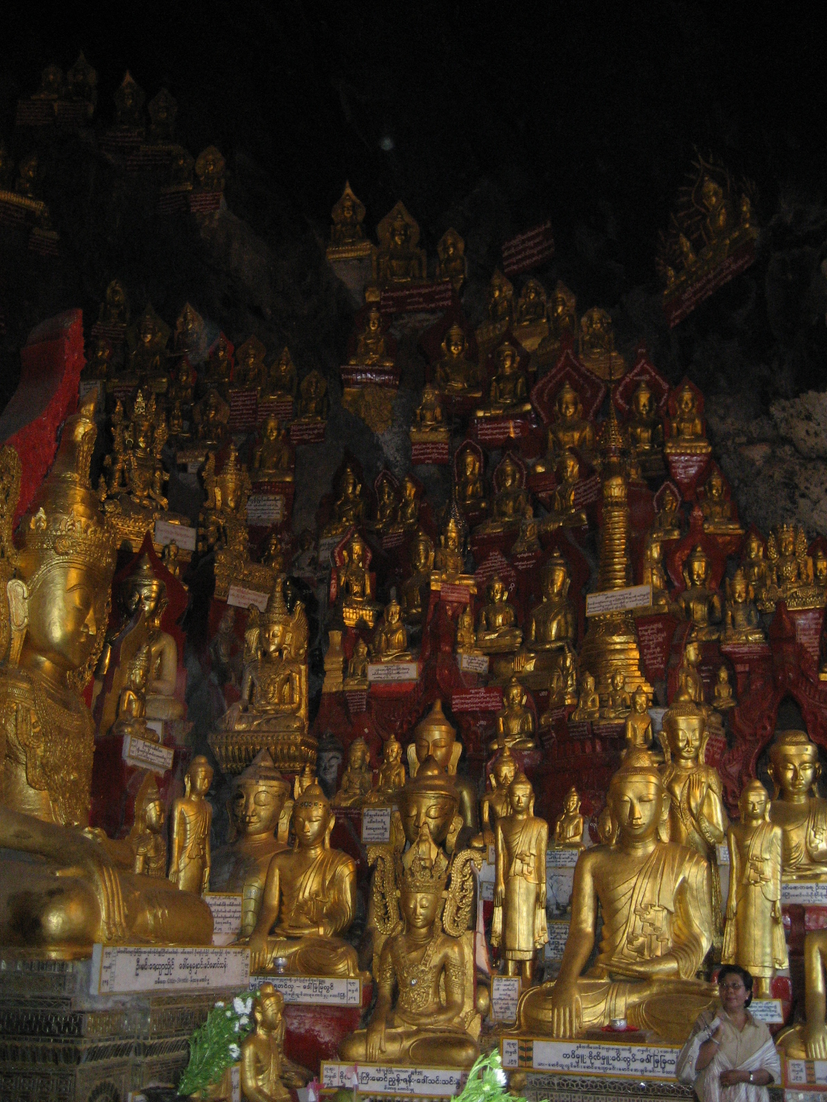 Buddha images at Pindaya Caves Summary Buddha images at Pindaya Caves